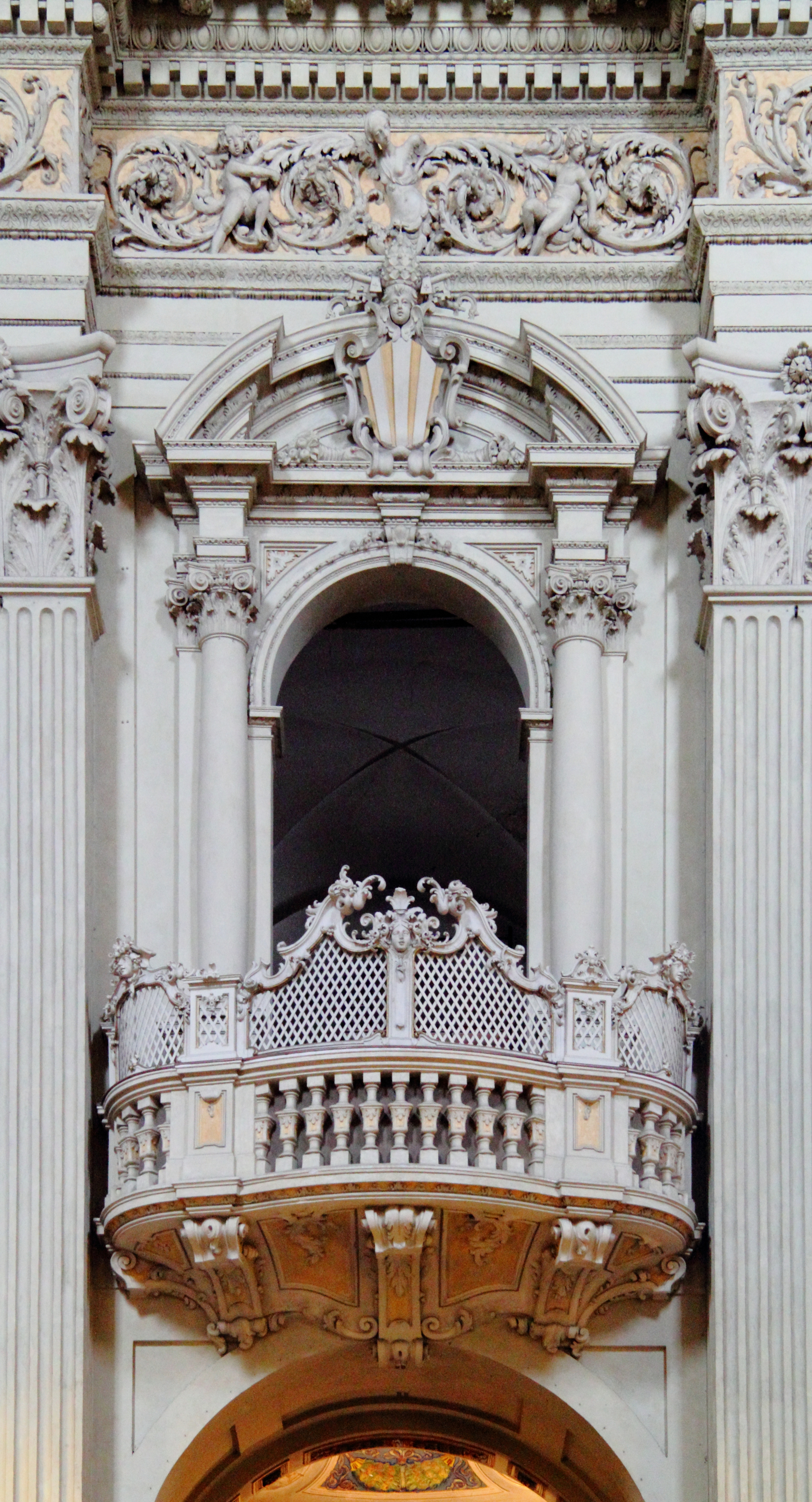 Bologna, Italy: San Pietro Cathedral, pulpit